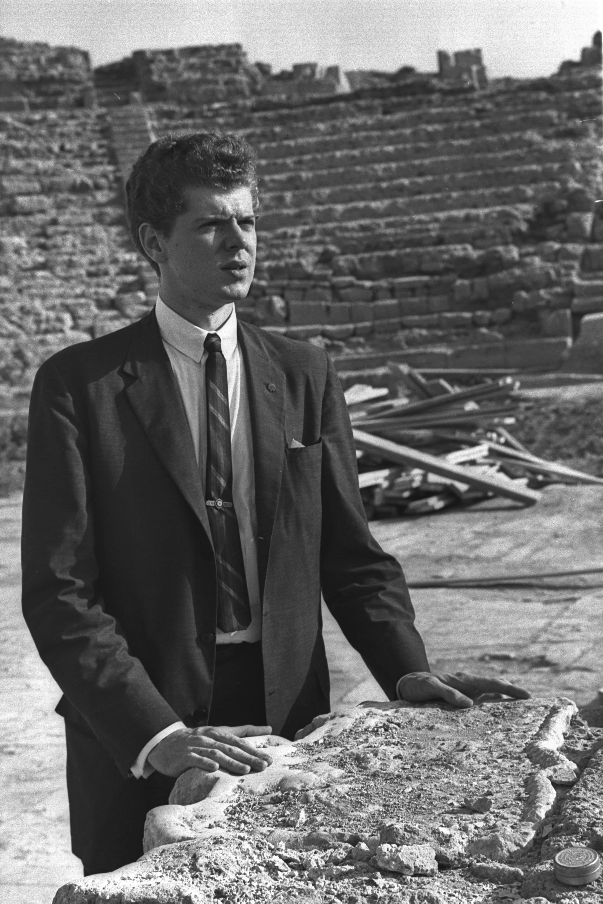 Van Cliburn on a visit to Caesarea, Israel, 1962